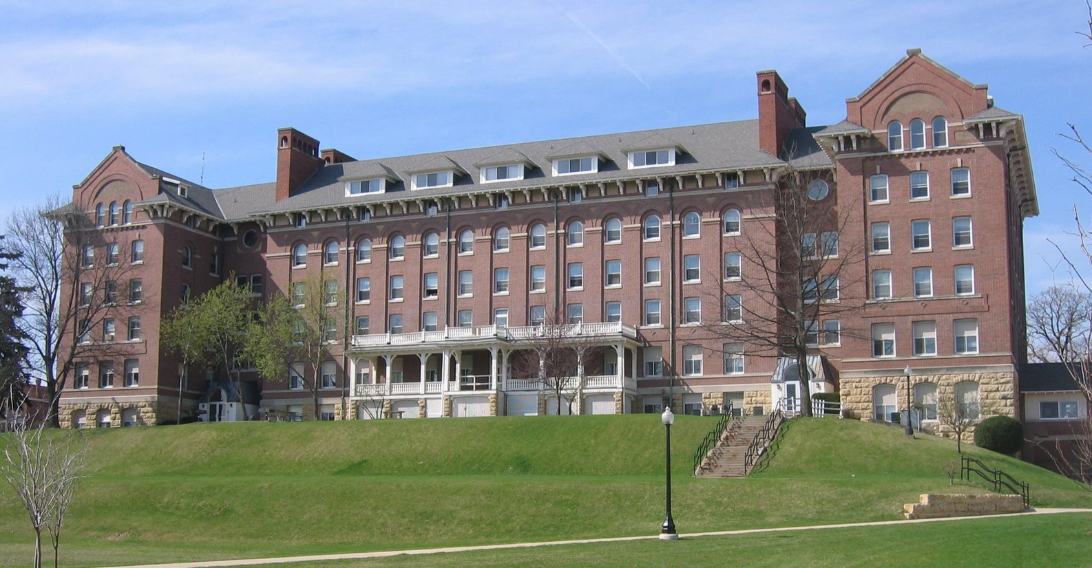 Keane Hall on the campus of Loras College. April 9, 2005.